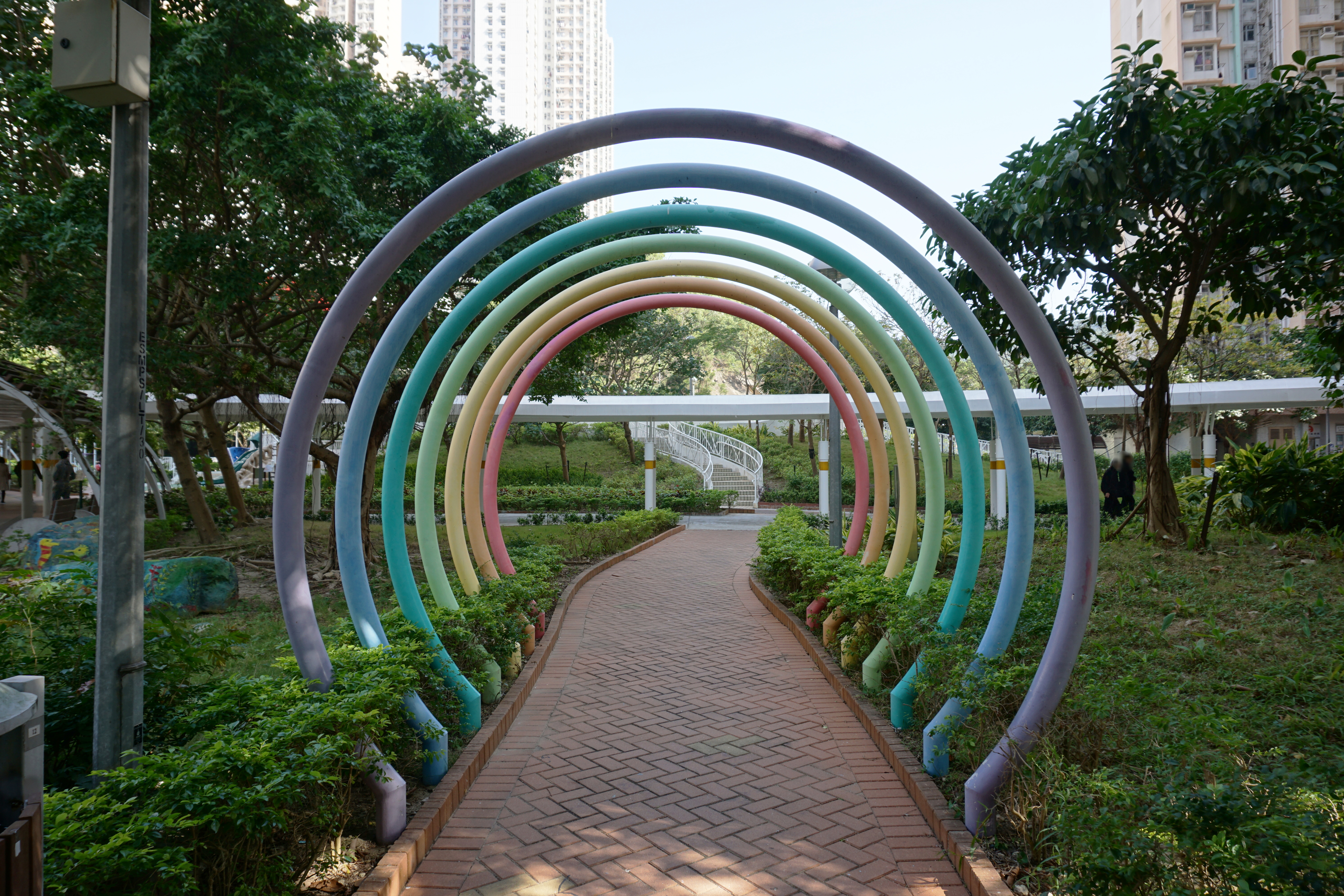 Sau Mau Ping South Estate in Sau Mau Ping, Hong Kong.